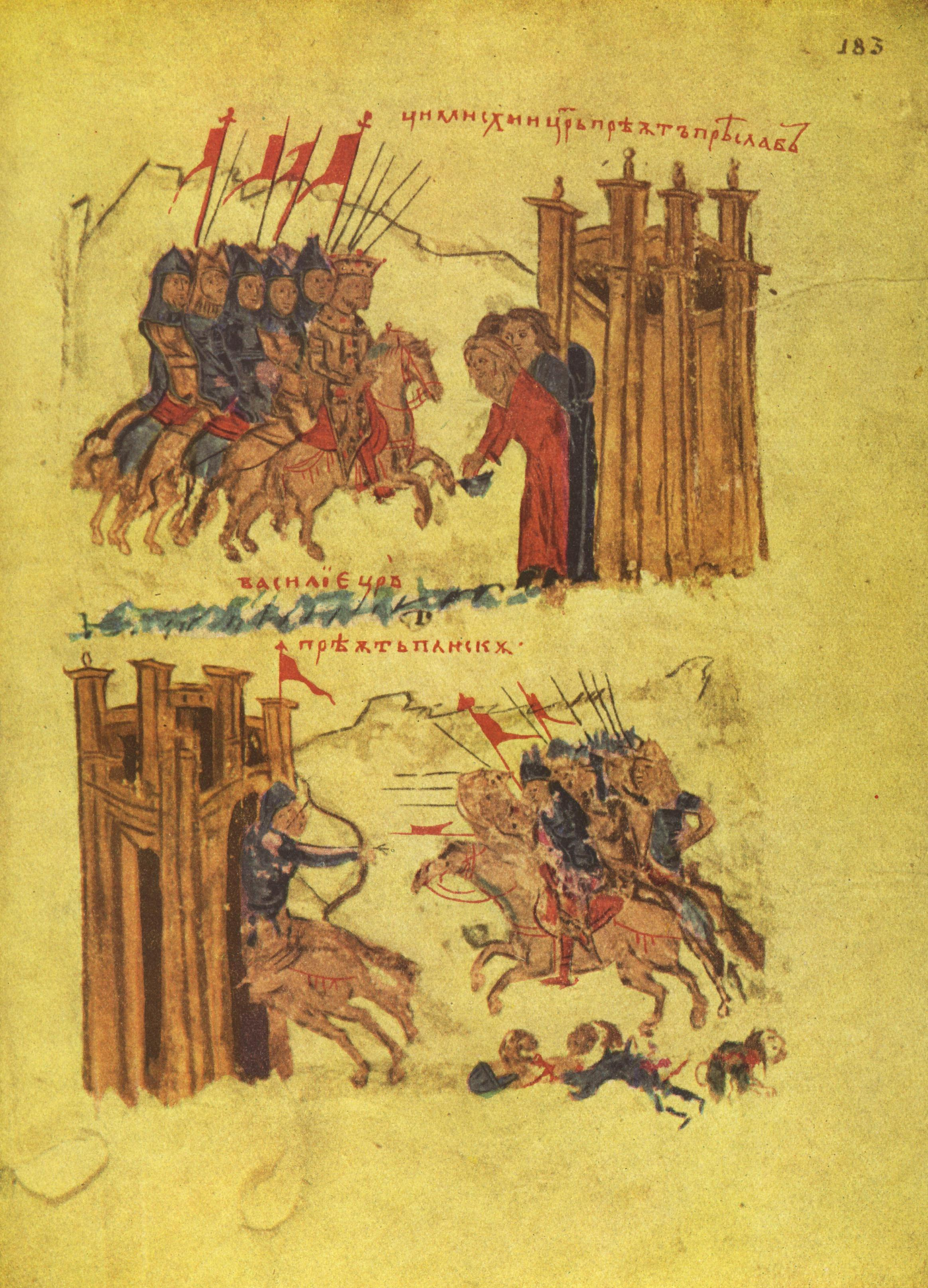 Miniature 65 from the Constantine Manasses Chronicle, 14 century: John I Tzimiskes conquers Preslav and Basil II conquers Pliska